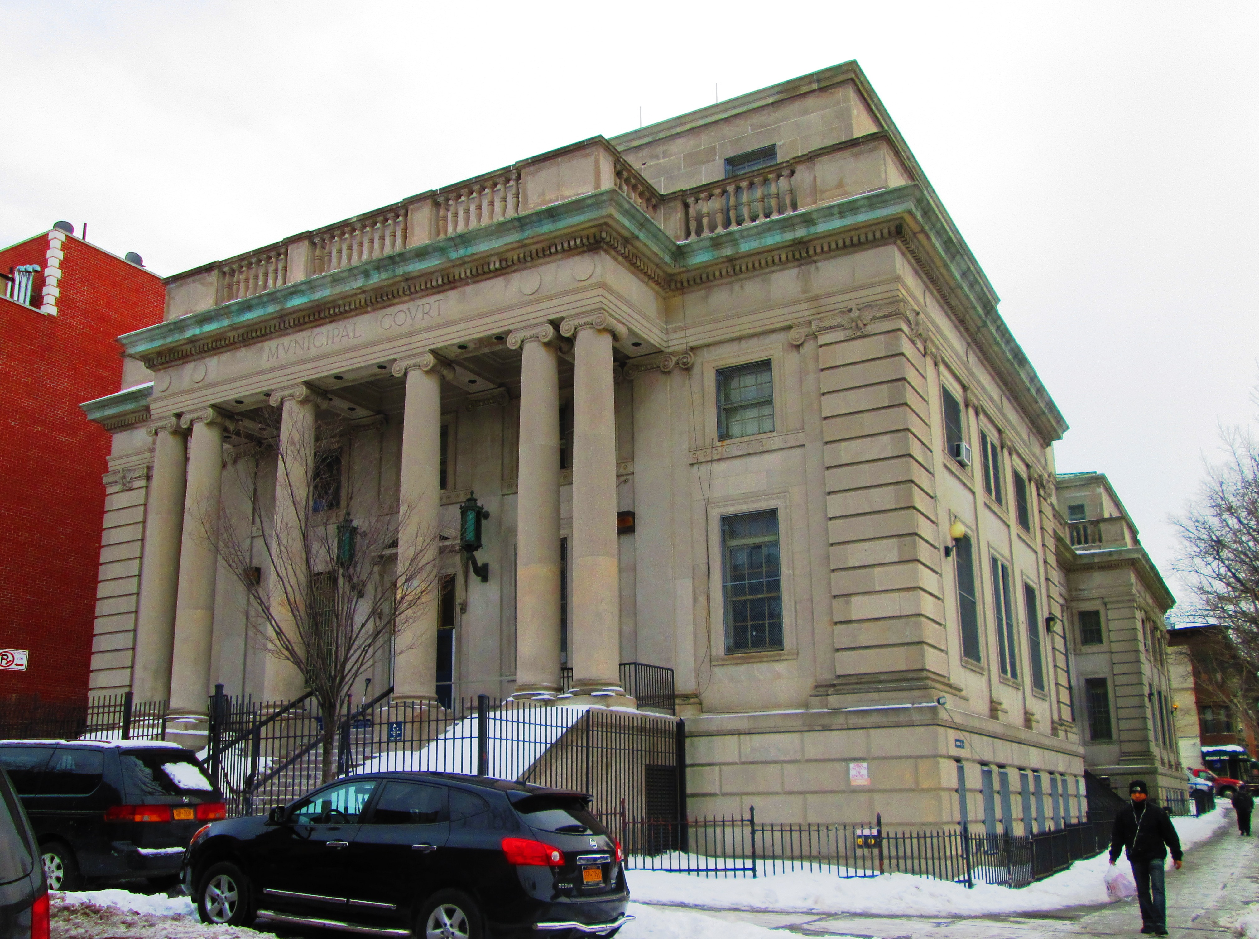 The Sunset Park courthouse, located at 4201 4th Avenue between 42nd and 43rd Streets in the Sunset Park neighborhood of Brooklyn, New York City, was built in 1930-31 and was designed by Mortimer Dickerson Metcalfe in the Neoclassical style. The building has separate facades and entrances for the Municipal Court (42nd Street) and the Magistrates Court (43rd Street). It was converted for non-court use in 1962. In 1970 it was the location of the NYC Job Preparation Center, and Community Board 7 utilized the building at about this time. By 1973 the Sunset Park Senior Citizens Center and other non-profit agencies were located there. A full renovation of the building was completed by Helpern Artitects in 1996, and the NYPD moved into the building shortly afterwards (Source: Guide to NYC Landmarks (4th ed.) and NYCLPC Designation Report